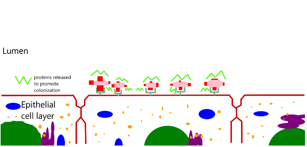 in name